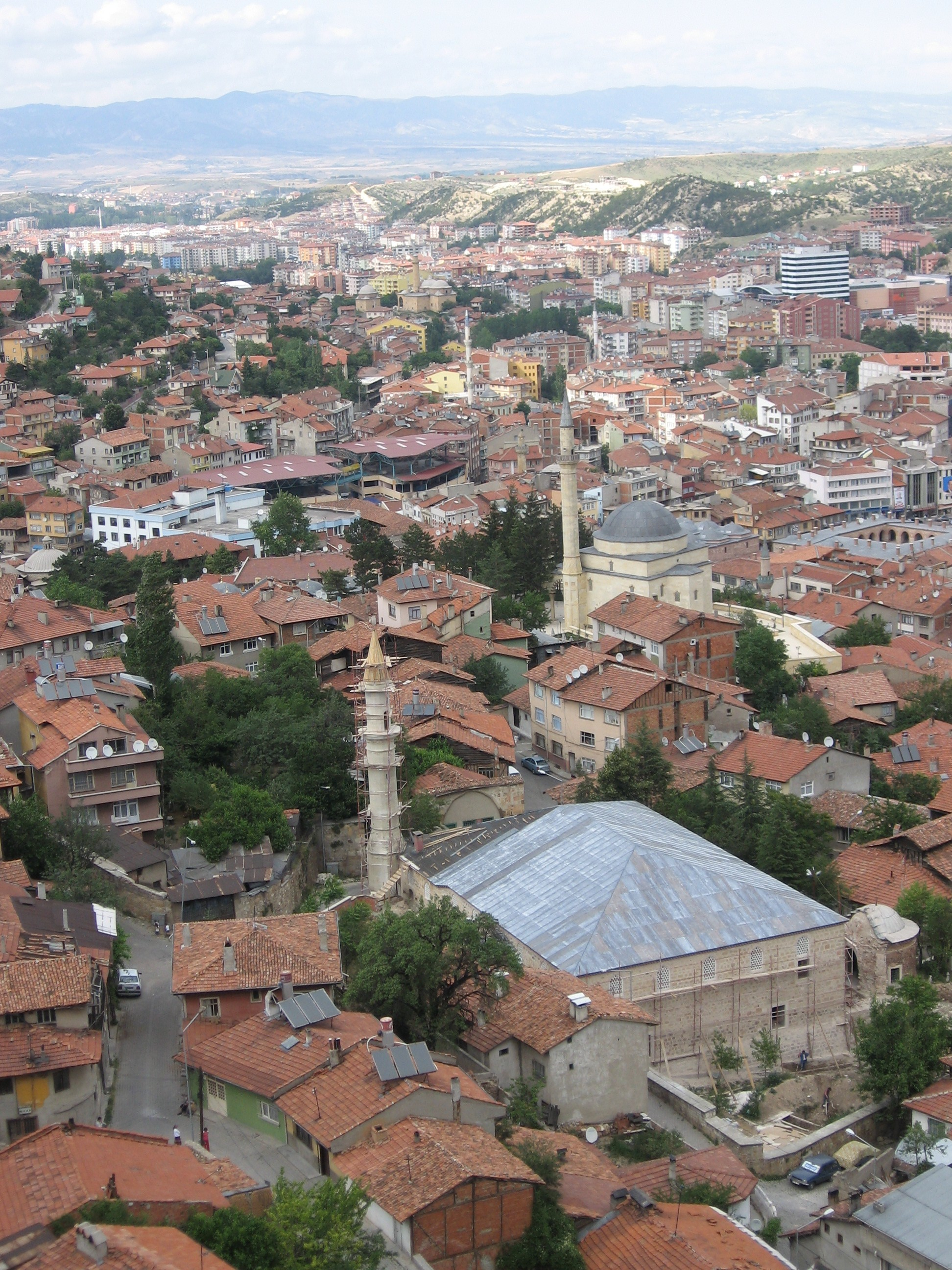 Kastamonu viewed from the citadel